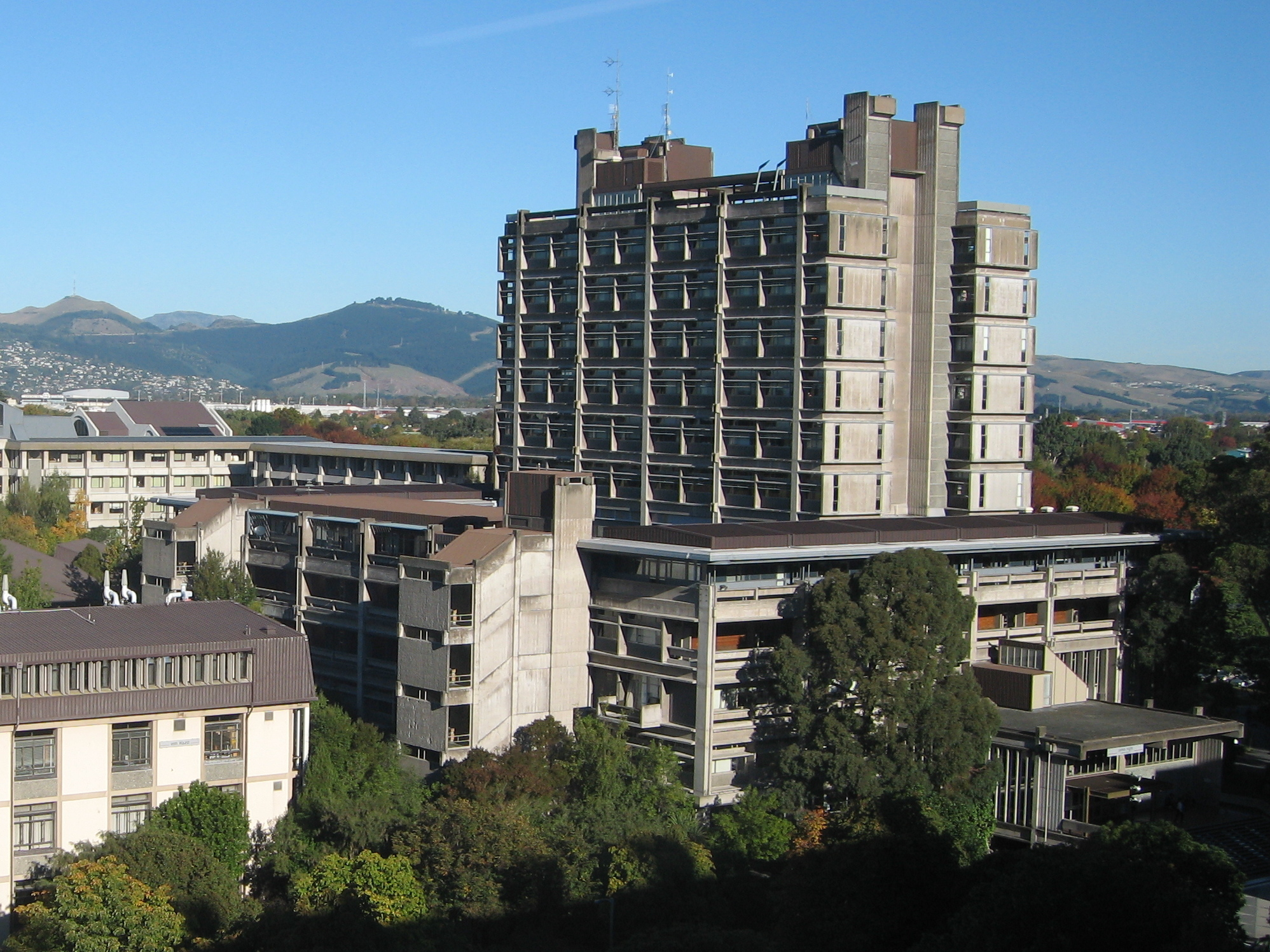 Central Library viewed from the Rutherford Building, University of Canterbury, Christchurch.